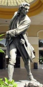 Statue of Woodes Rogers outside the British Colonial Hilton, Nassau.